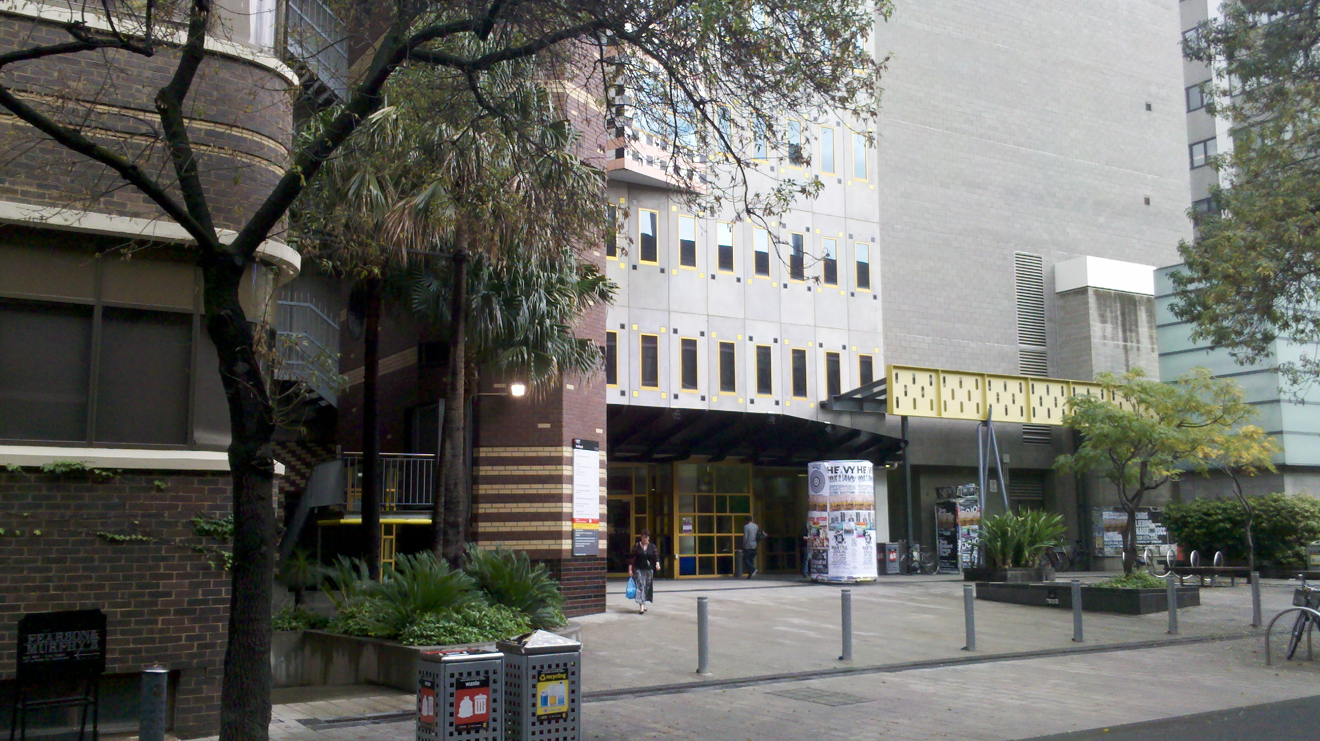 This is a photograph of RMIT Building 8's rear entrance.